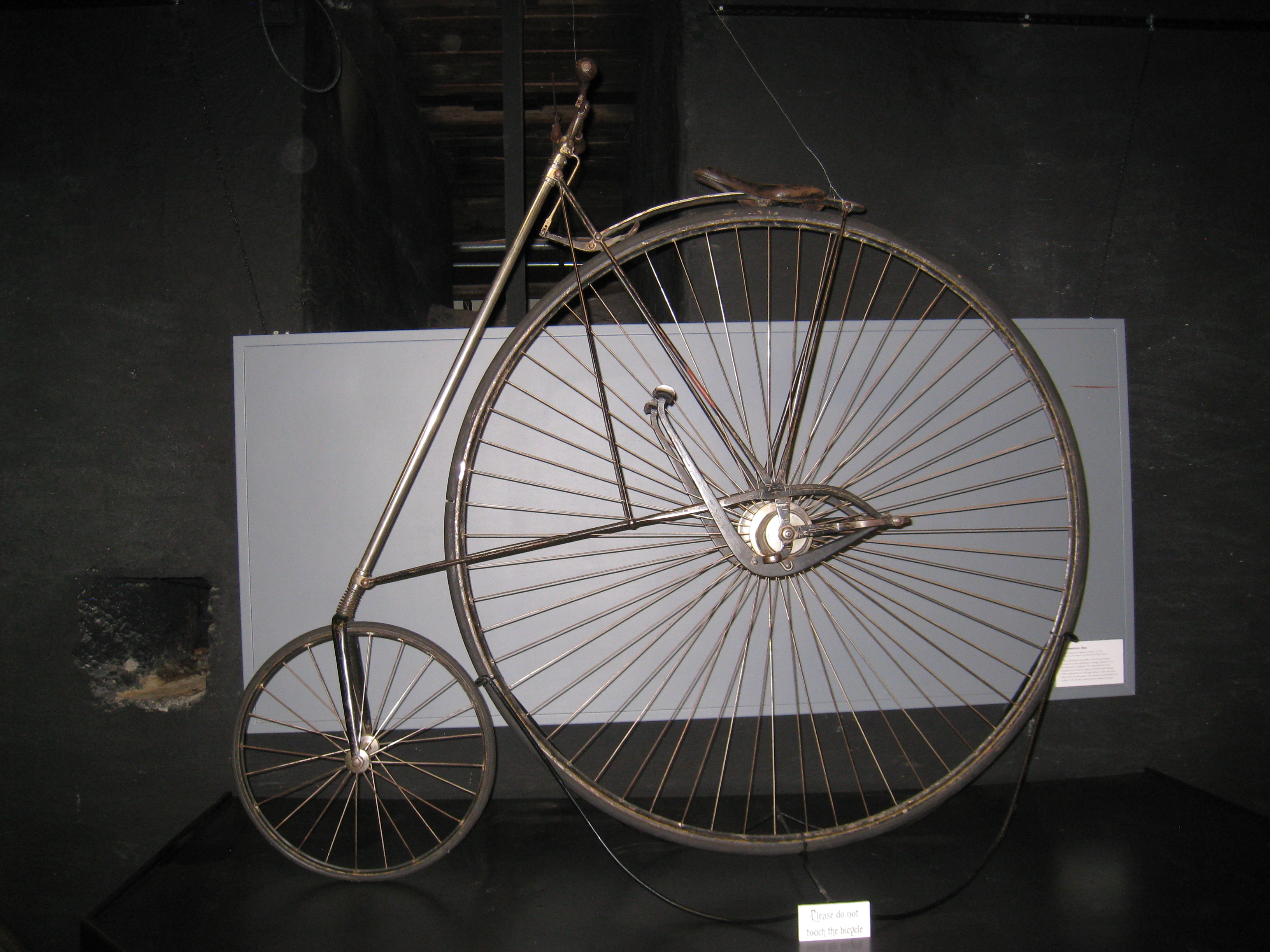 American Star, 51 inch, HB Smith Machine Company, Smithville, NJ, USA, 1885.